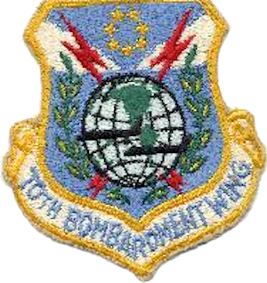 Emblem of the 70th Bombardment Wing (SAC)